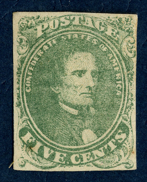 The first general issue stamp of the Confederate States of America, 1861. Category:United States history images